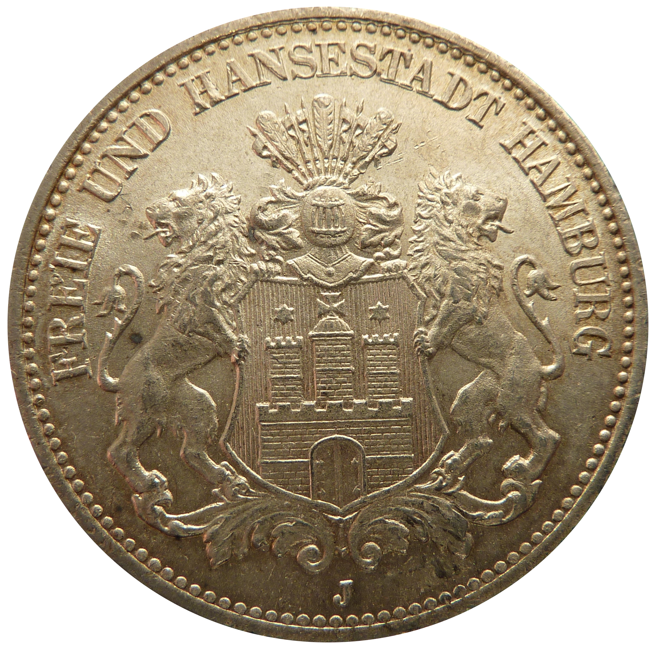 Averse of the commemorative 2-Mark-Coin from Hamburg